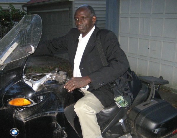 Mike Boit, Visiting New Haven, CT USA - Autumn 2006